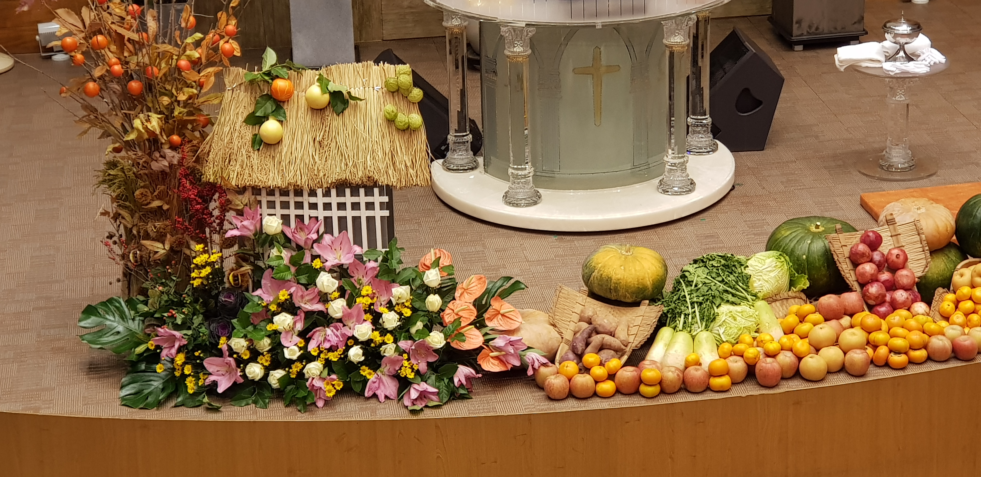 Thanks Giving Day in the Church